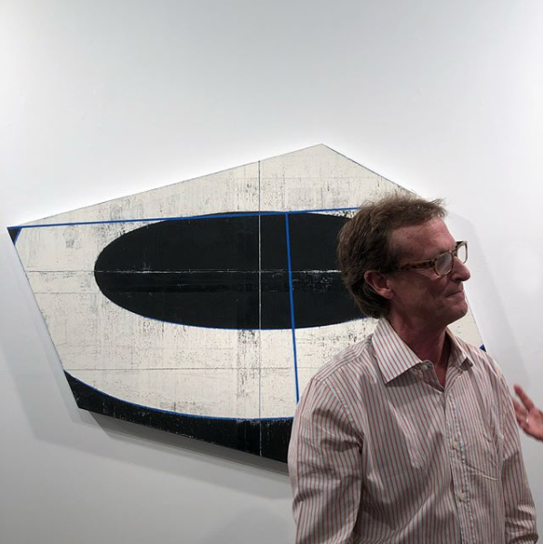 The painter David Row at his 2018 solo exhibition Counter Clockwise at Loretta Howard Gallery in New York, NY.